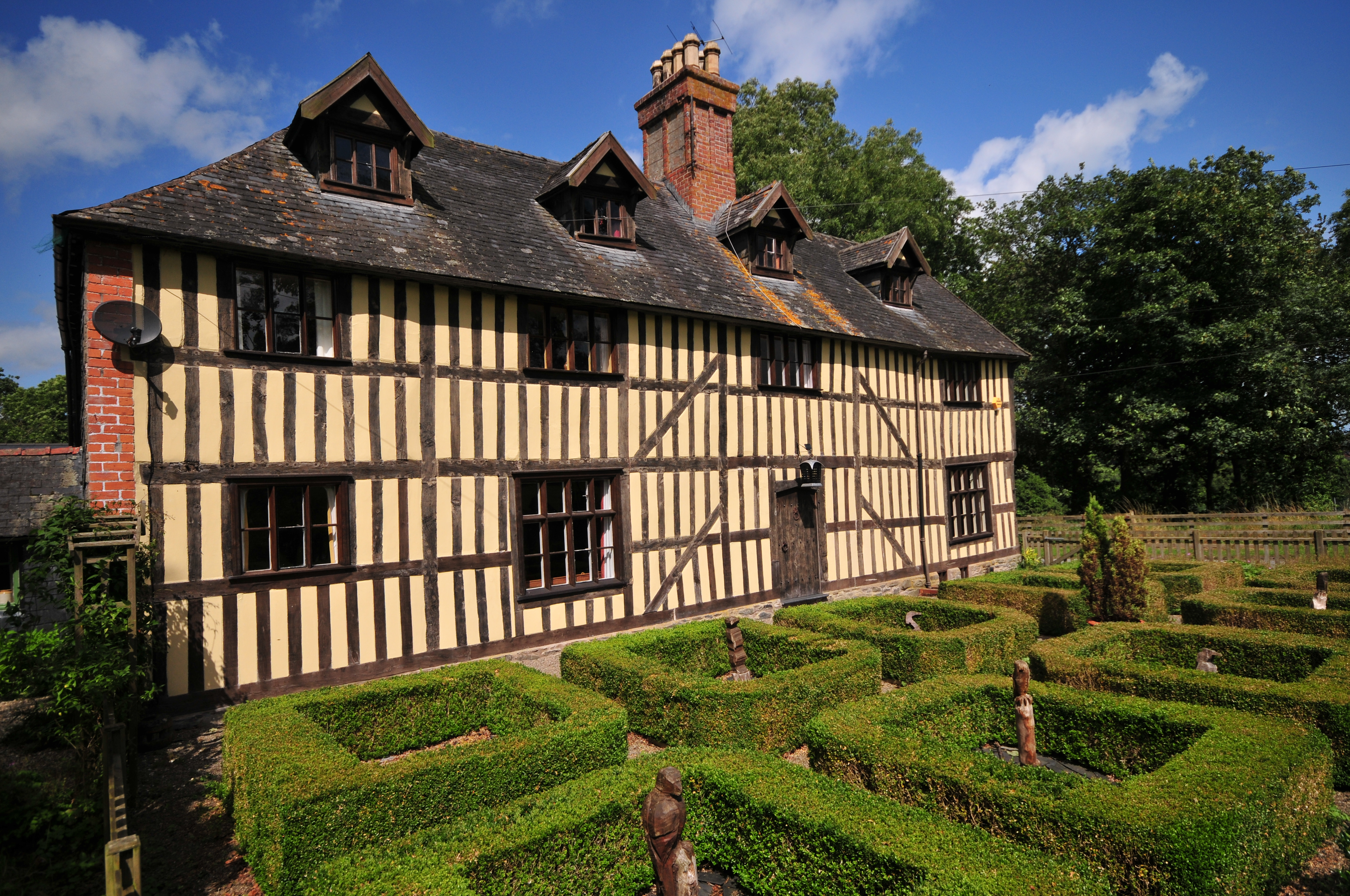 Talgarth